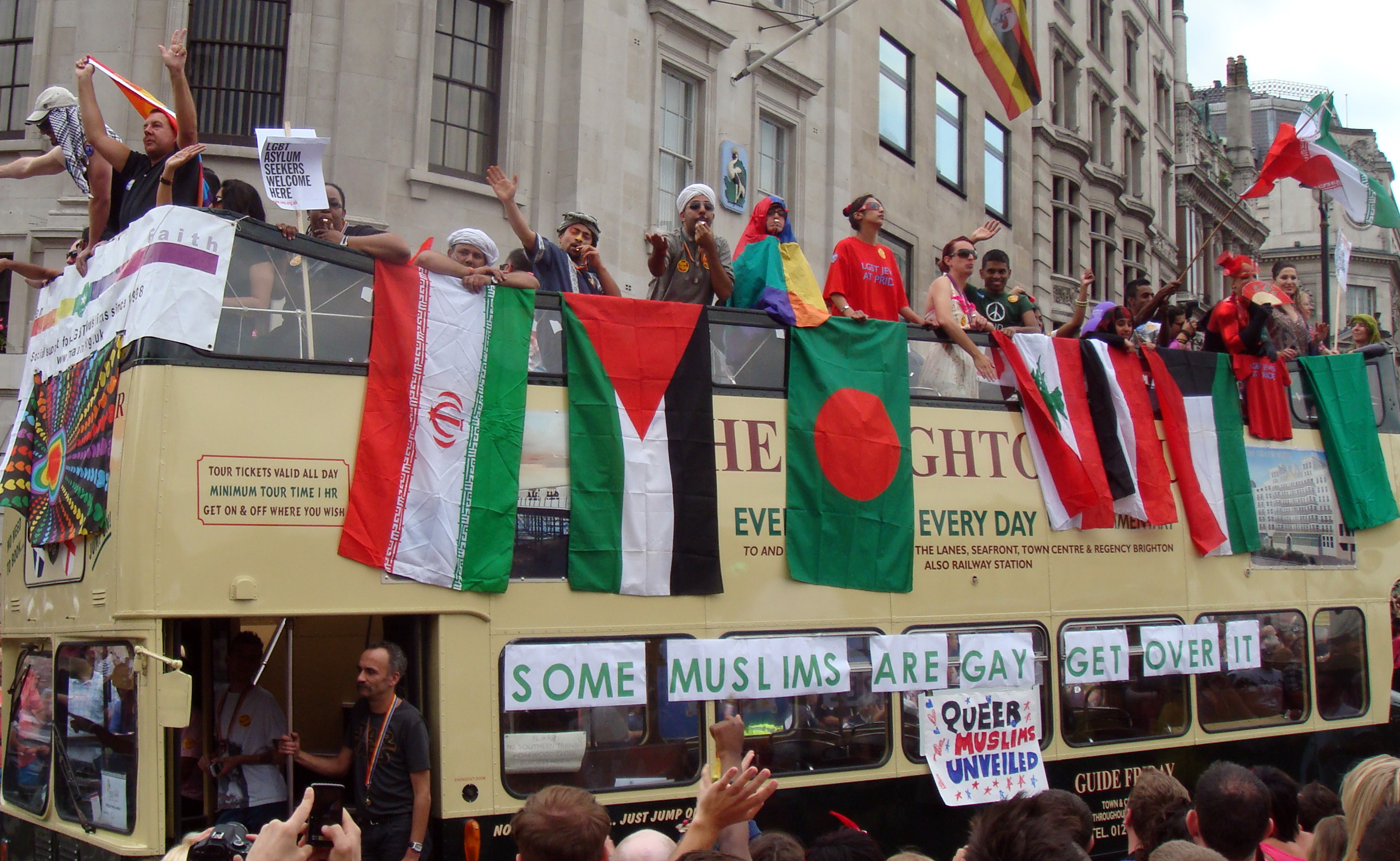 Muslim gay bus